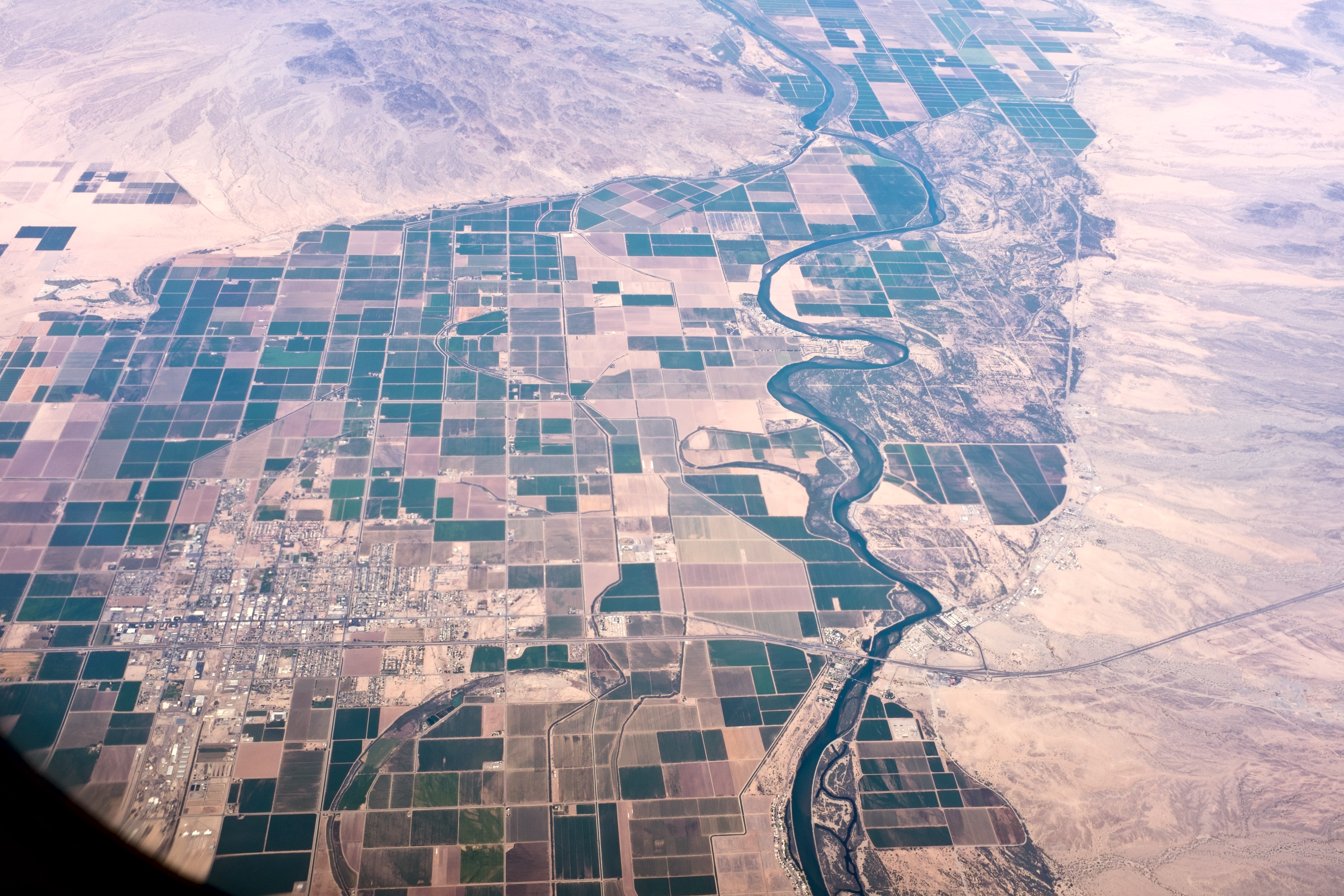 Blythe, California, and Colorado River, seen from the air. This is the border between California (on left) and Arizona (on right).